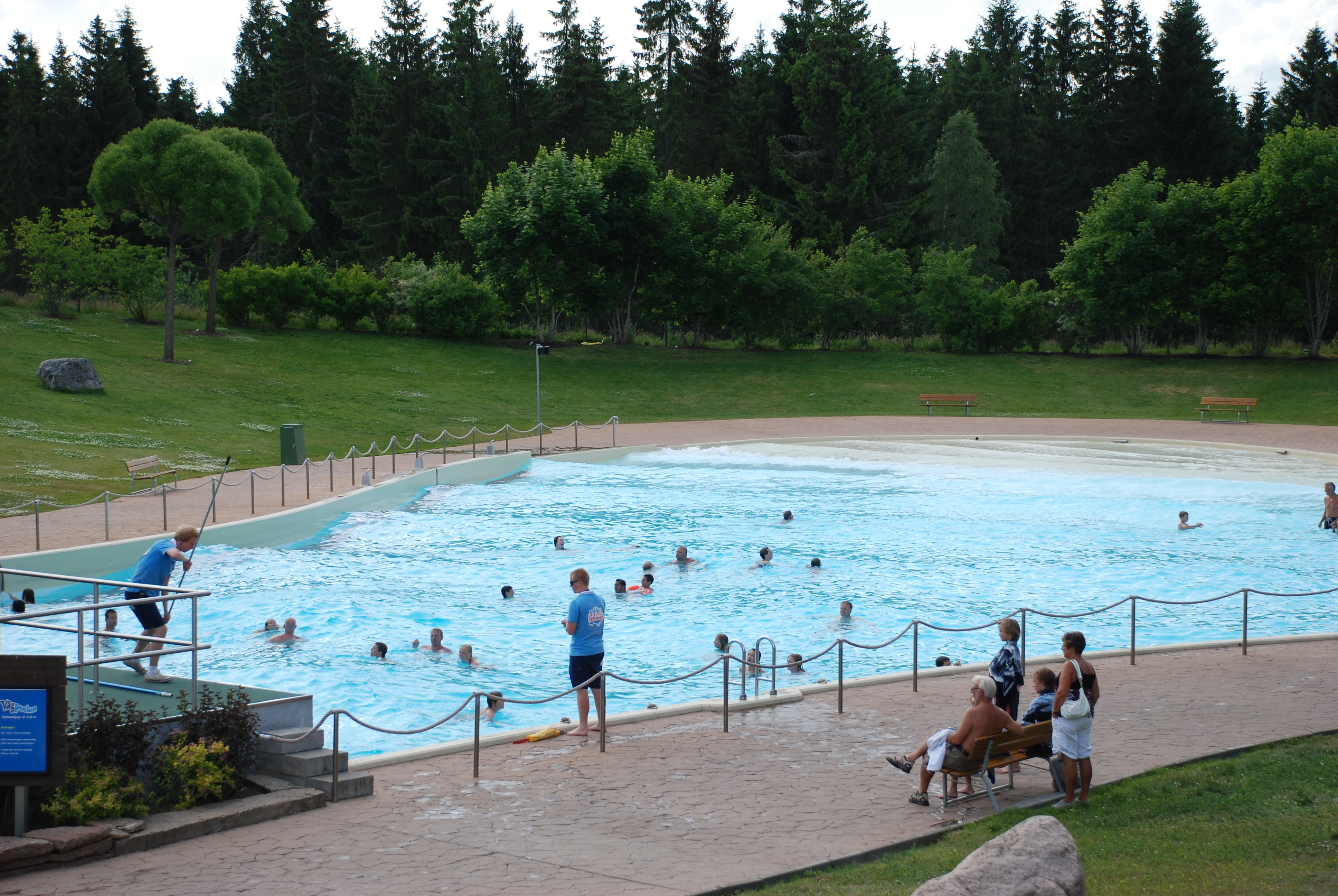 Wave pool at Skara Sommarland, Skara Municipality, Västergötland, Sweden